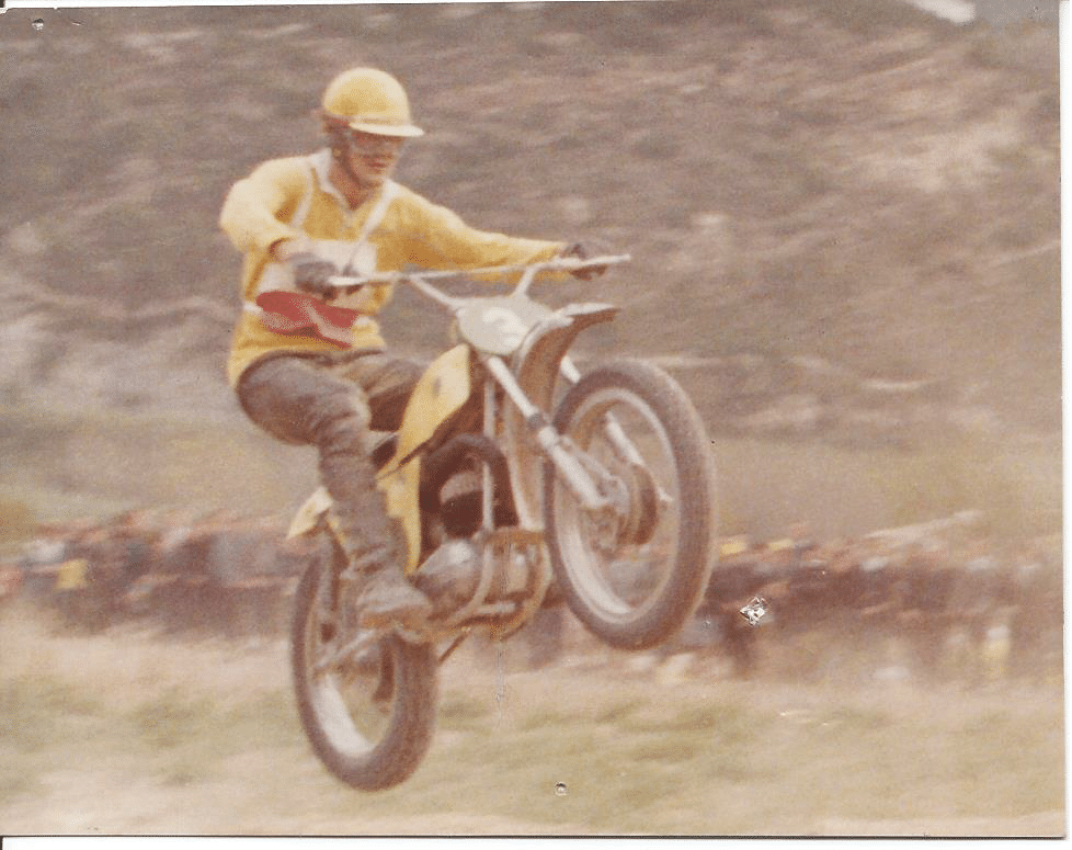 Oriol Puig Bultó on the Bultaco Métisse during his last motocross race, the Motocròs de Manresa, on November 6, 1966